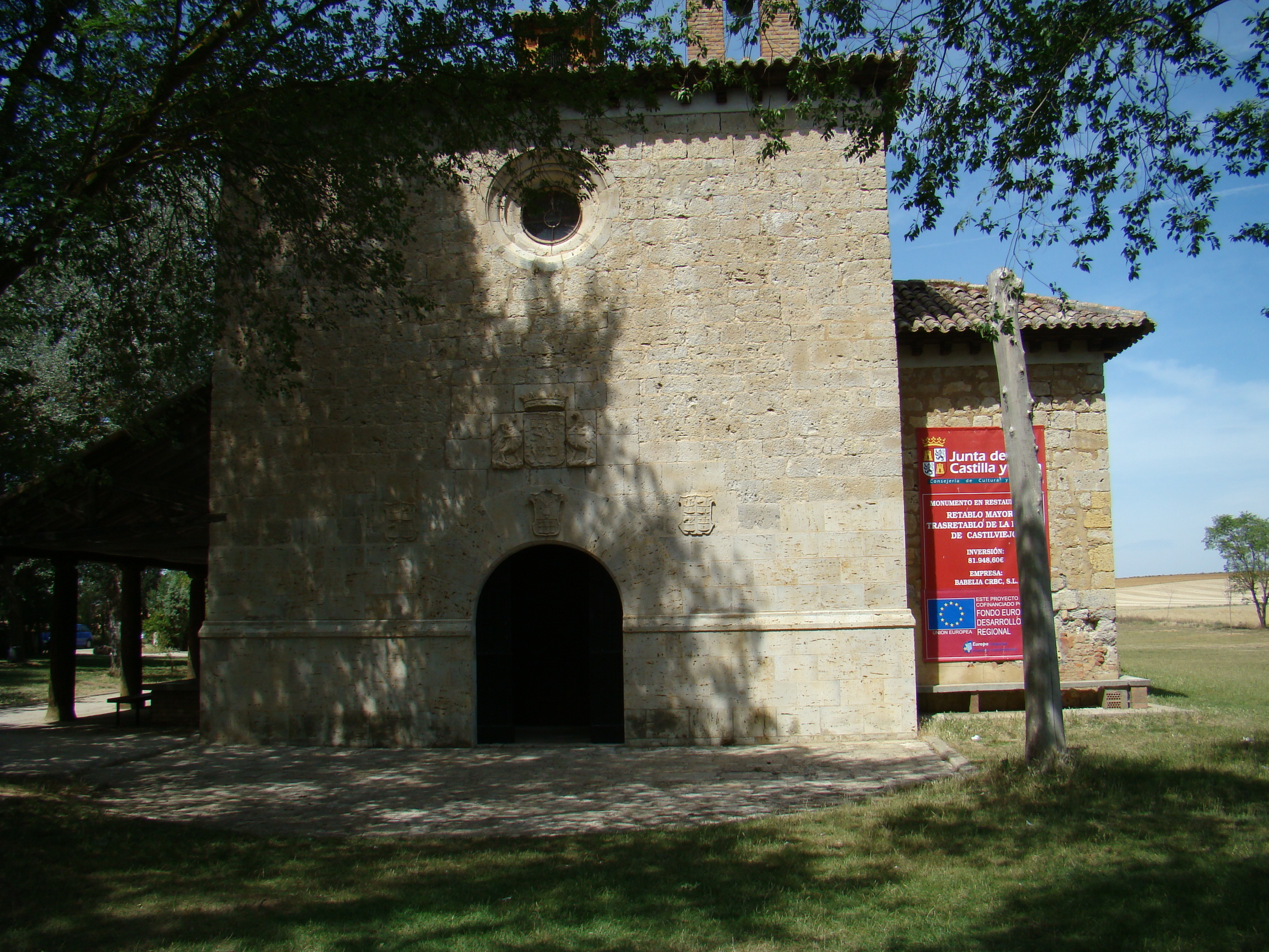 Hermitage of Castilviejo (Medina de Rioseco in Valladolid, Spain). Main facade.